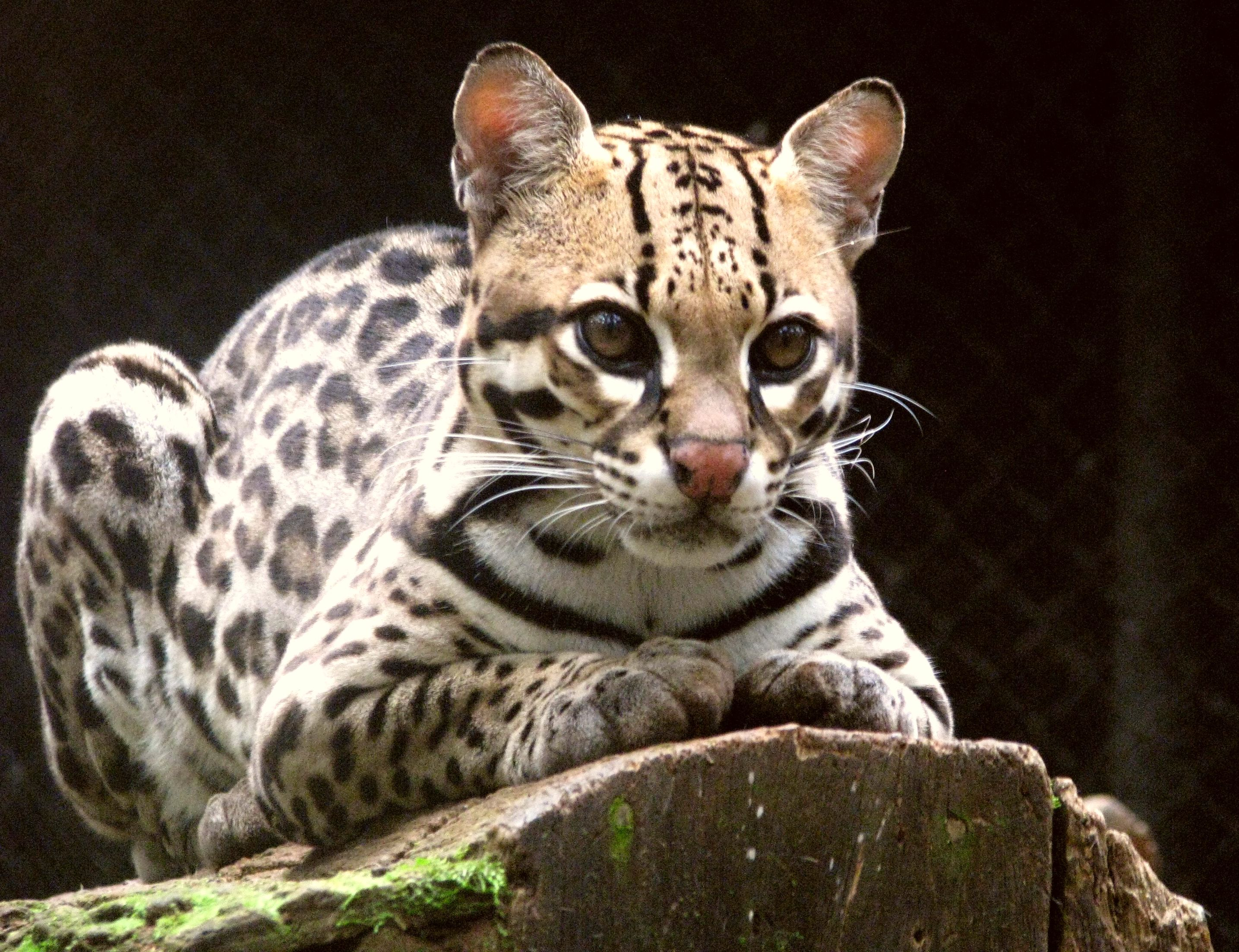 Ocelot (Leopardus pardalis) also known as the Painted Leopard, McKenney's Wildcat.